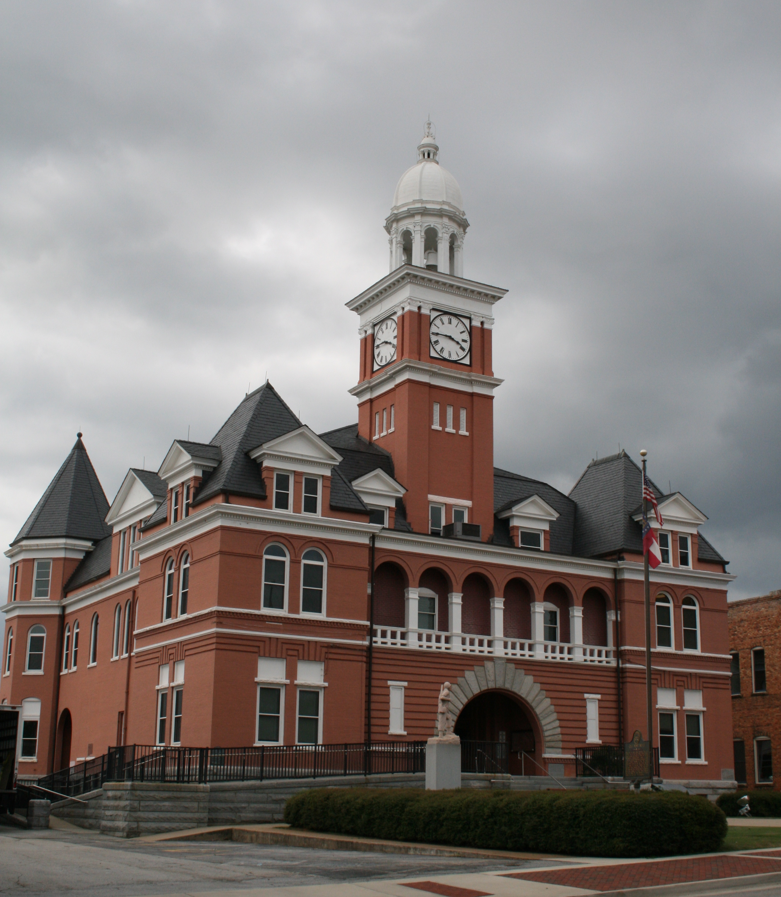 this is the third Elbert County courthouse building - red brick with Elberton granite block base